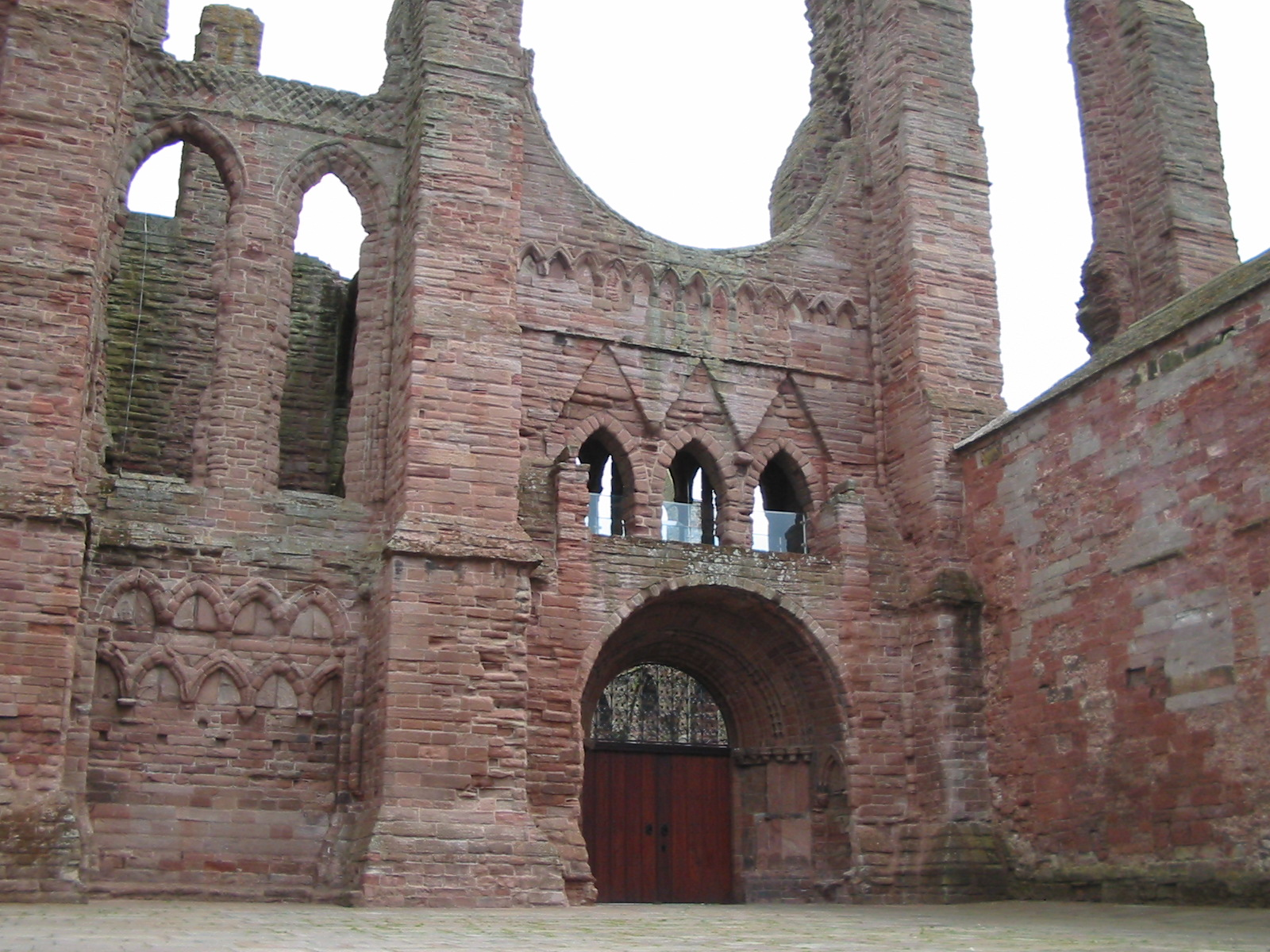 Arbroath Abbey